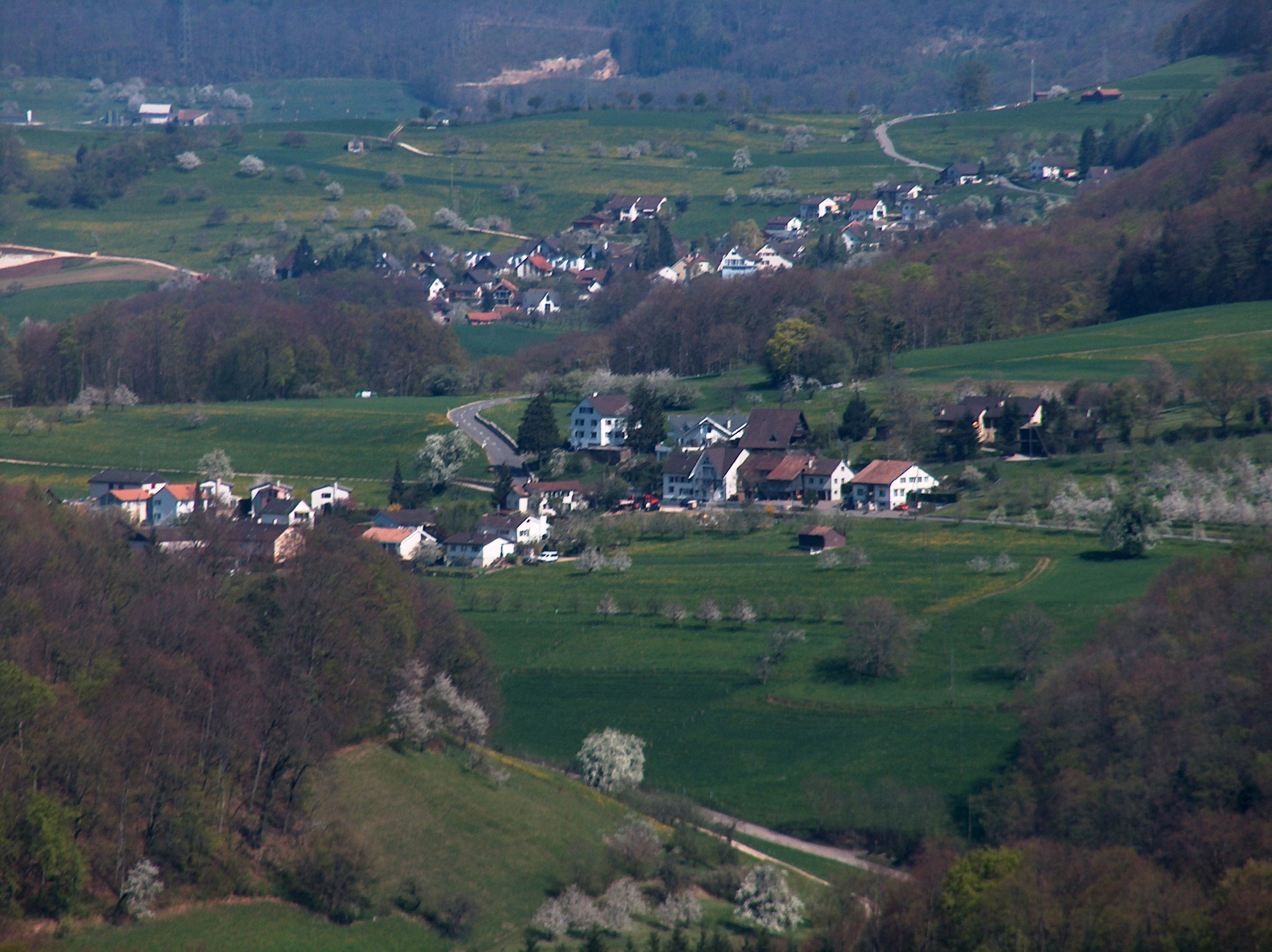 View over Arisdorf and Olsberg from lookout at the top of Schleifenberg, Liestal